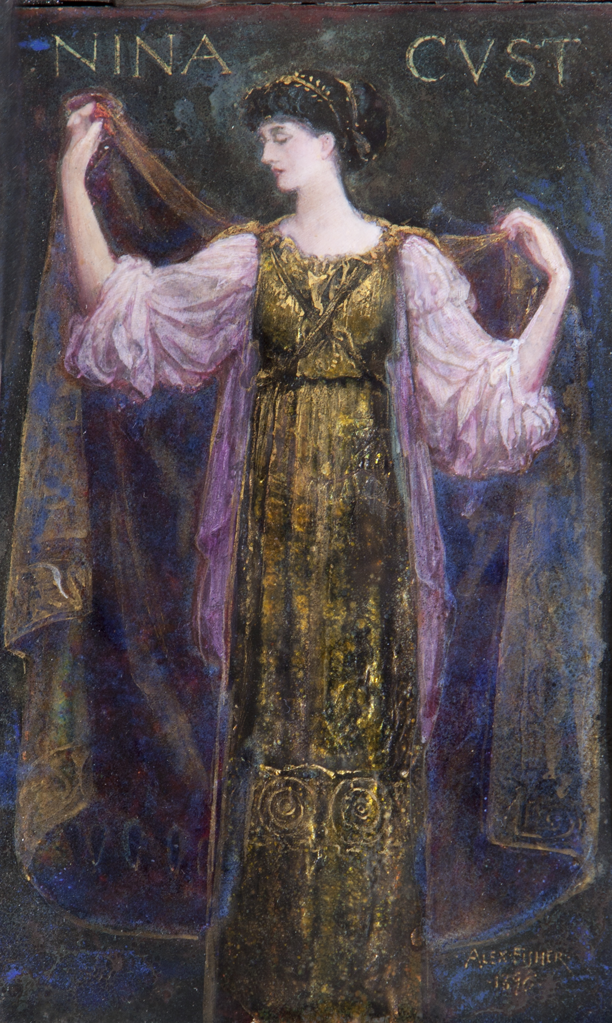 Fisher, Alexander; Emmeline 'Nina' Mary Elizabeth Welby-Gregory (1867-1955), Mrs Henry John Cockayne-Cust, coloured enamel on metal; National Trust, Belton House